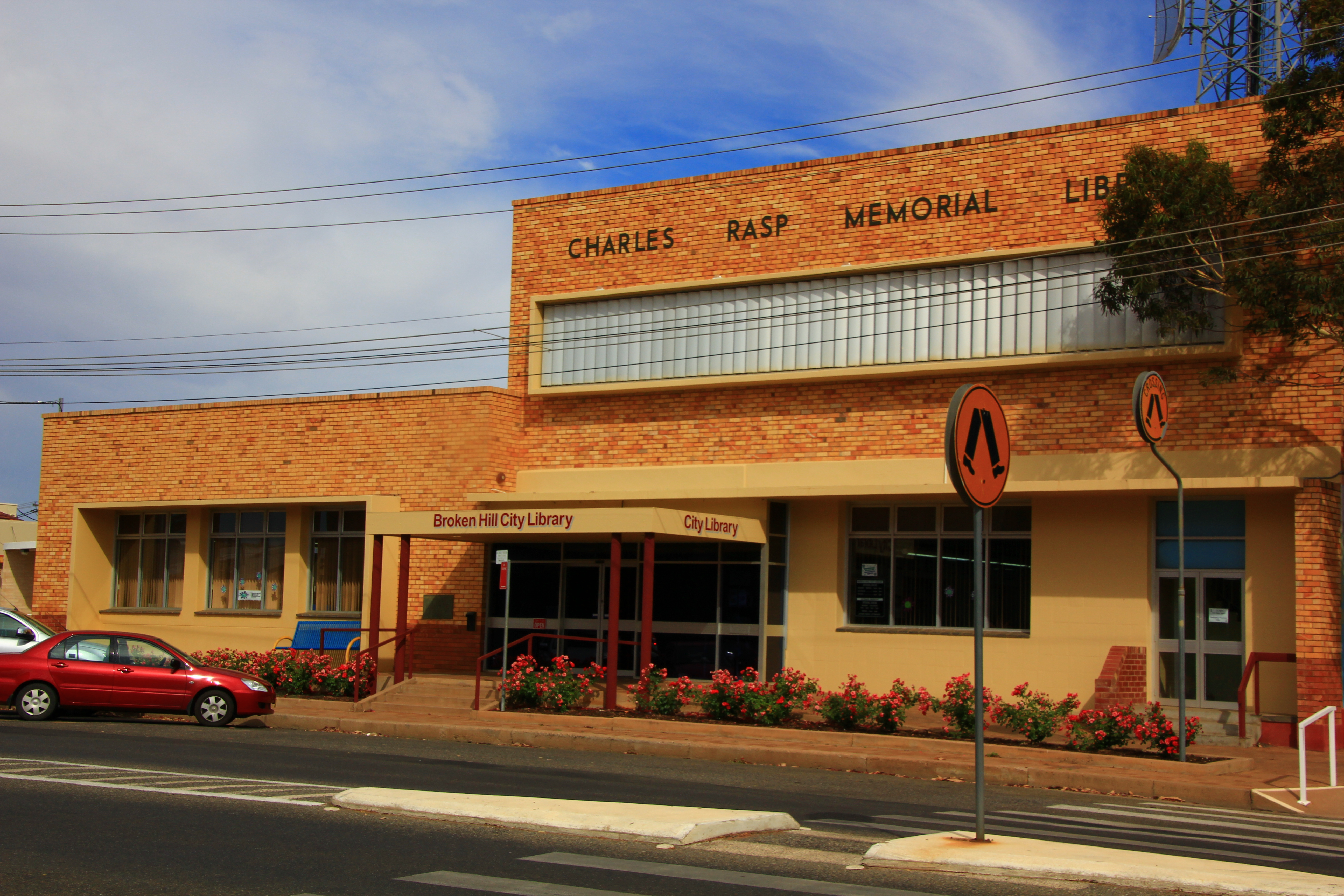 The current building where the Broken Hill City Library, New South Wales, Australia is located.